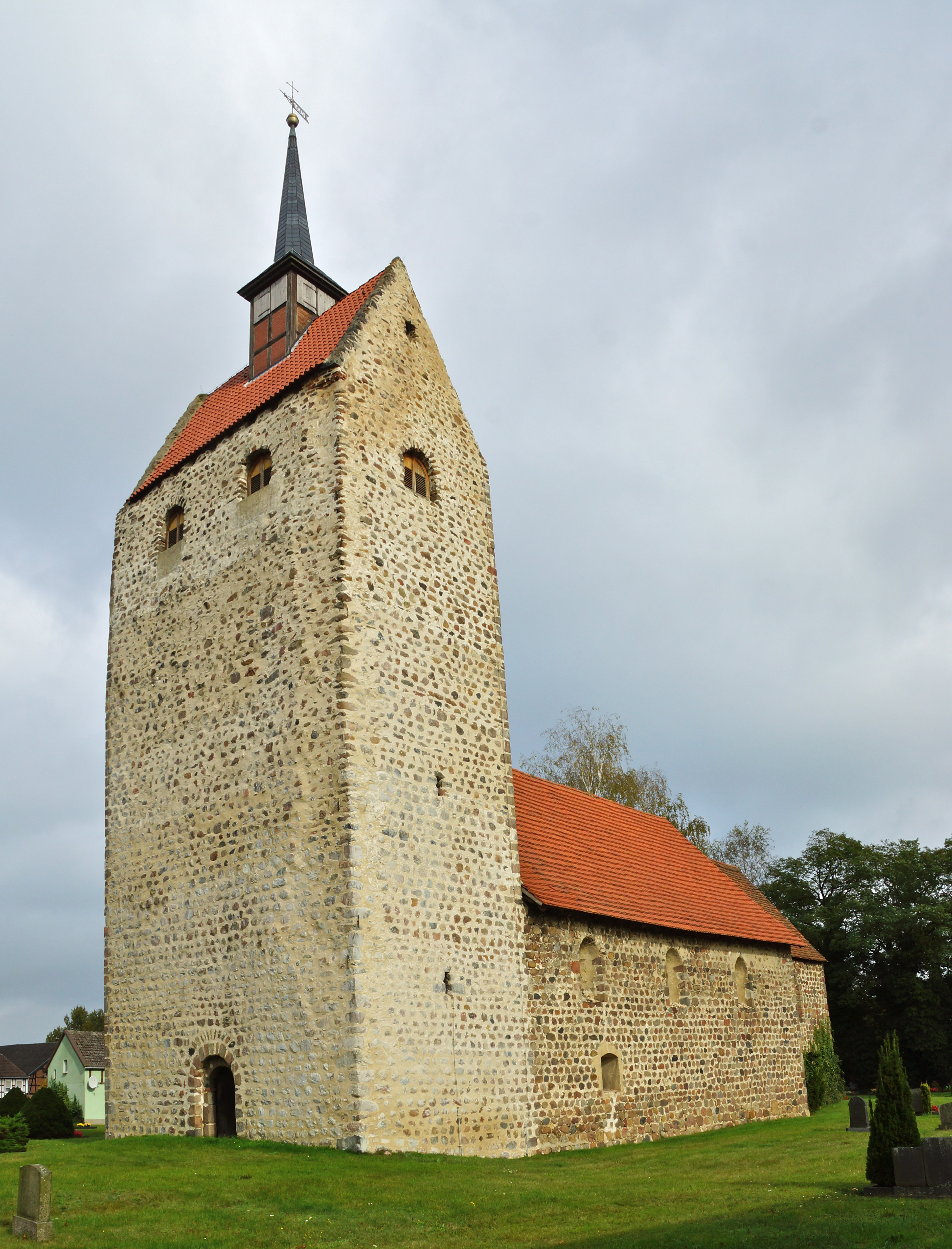 Winterfeld (Apenburg-Winterfeld ), Germany: Church